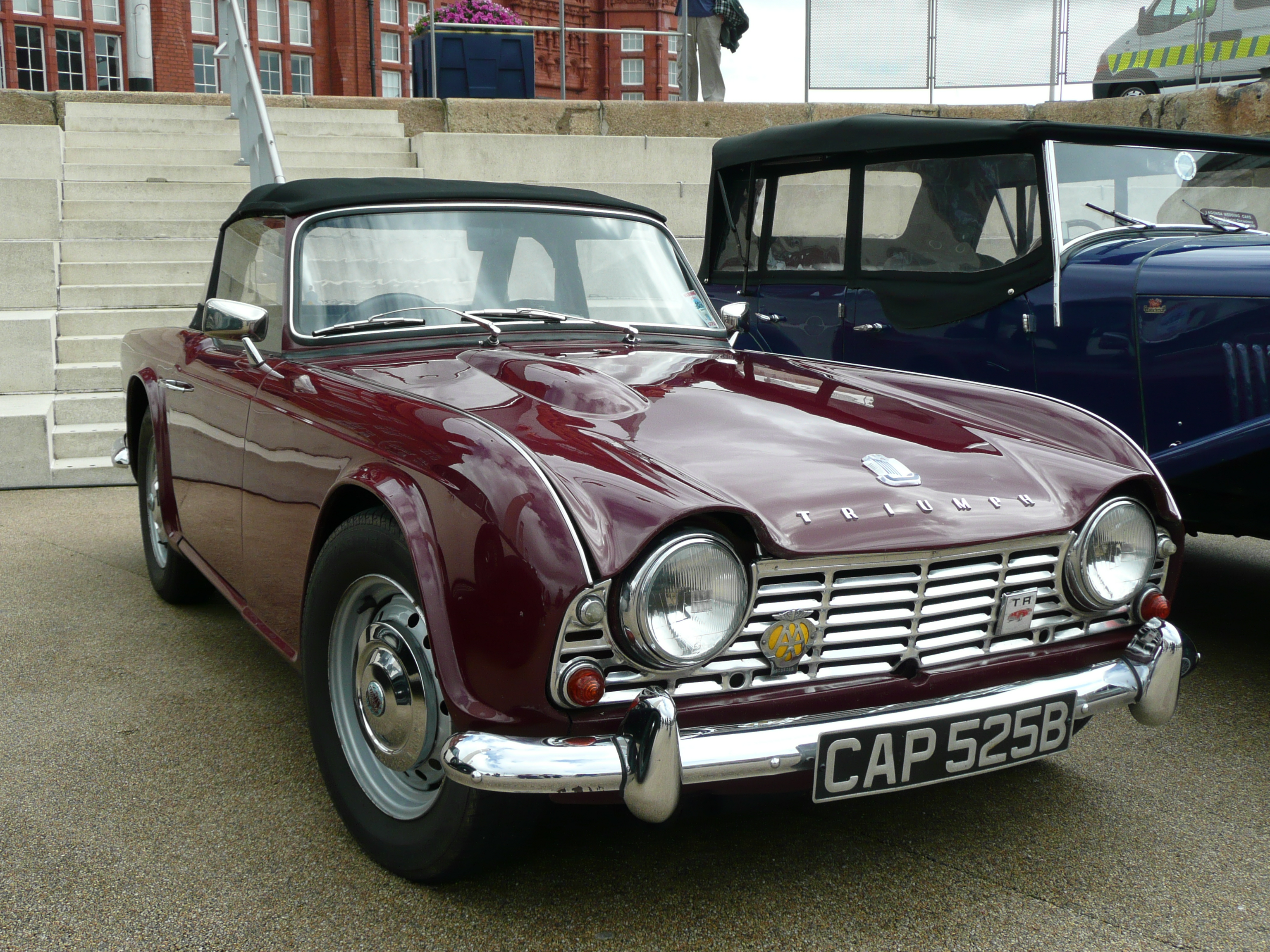 Triumph TR4 (front)